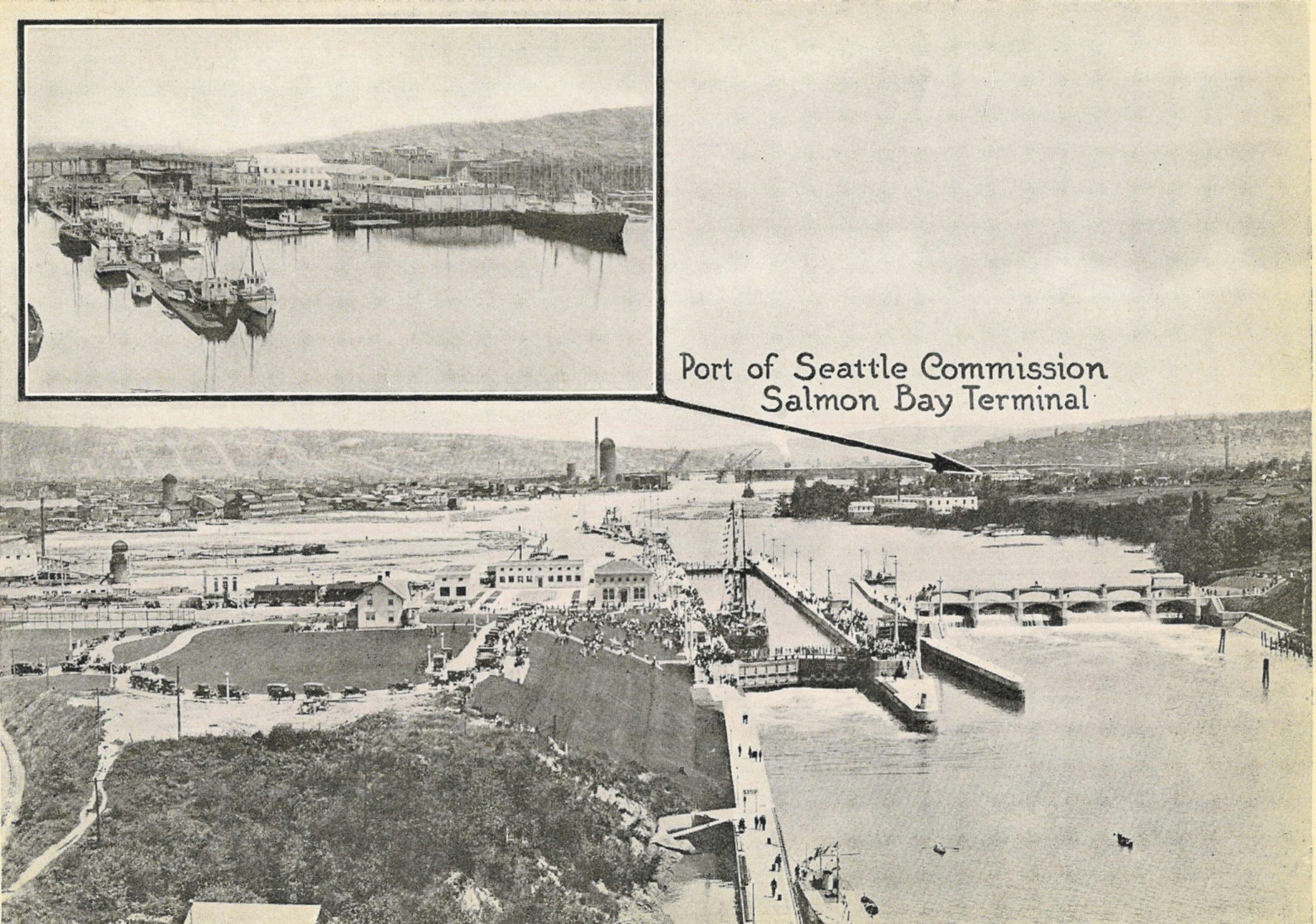 Description in the published source (1919): "Salmon Bay Locks and Port of Seattle Terminal". A secondary caption on the image says "Port of Seattle Commission Salmon Bay Terminal". The Ballard Bridge can be seen in the background. The locks are now the Hiram M. Chittenden Locks and are listed (along with the Lake Washington Ship Canal) on the National Register of Historic Places, ID #78002751. The locks connect saltwater Shilshole Bay to Salmon Bay (which became a freshwater bay because of the locks). The terminal is now Fishermen's terminal. This image shows the grounds to the north of the locks rather bare. They are now covered by the Carl P. English Gardens, and vehicles no longer come so close to the locks.